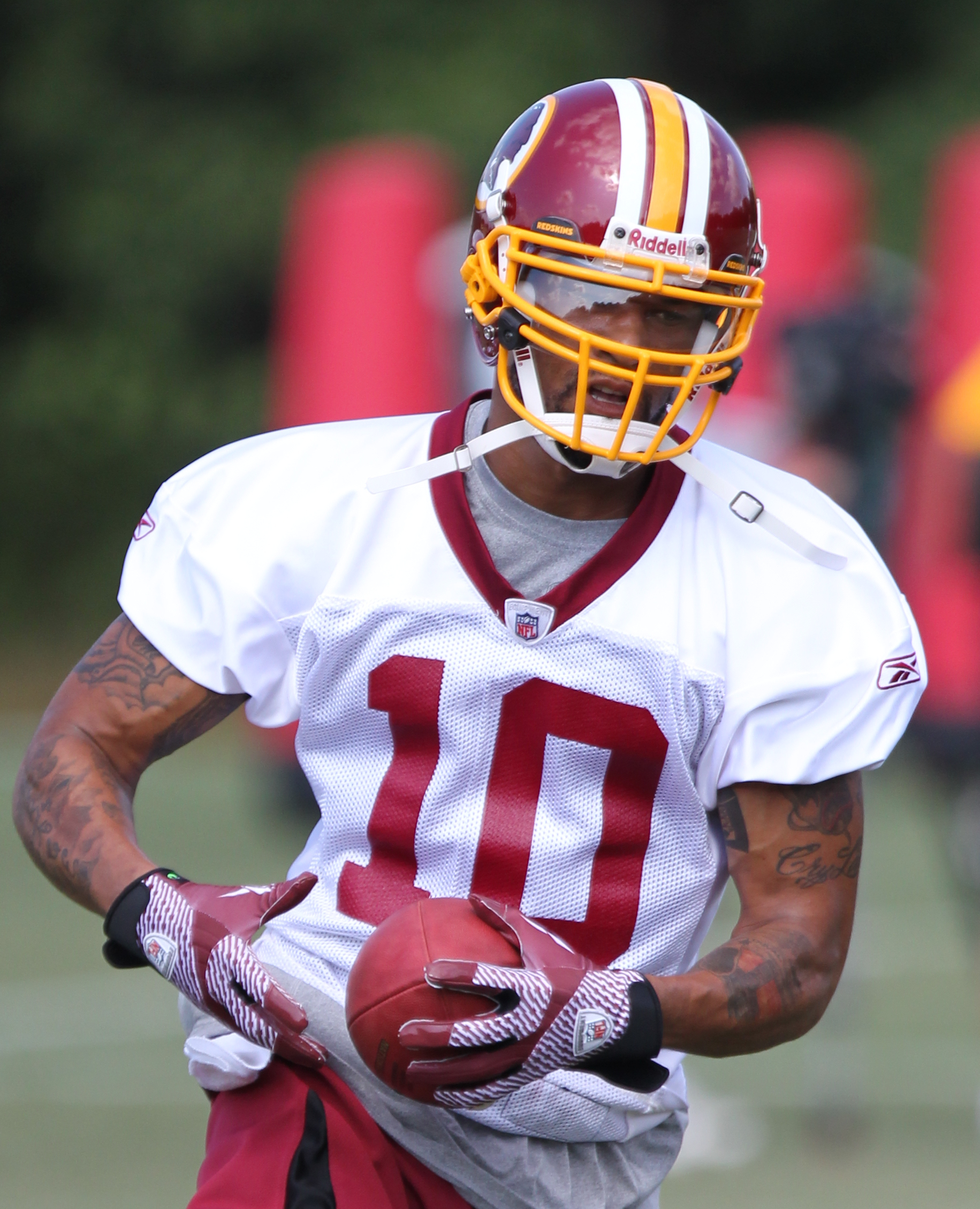 Washington Redskins Training Camp August 4, 2011